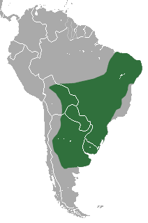 White-eared Opossum (Didelphis albiventris) range